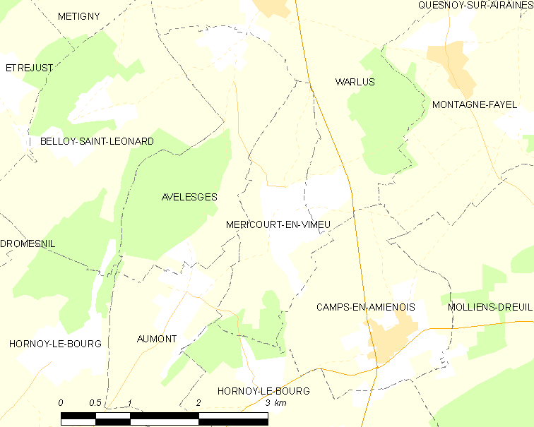 Map of French municipality Méricourt-en-Vimeu